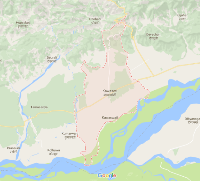 Kawasoti (कावासोती) municipality